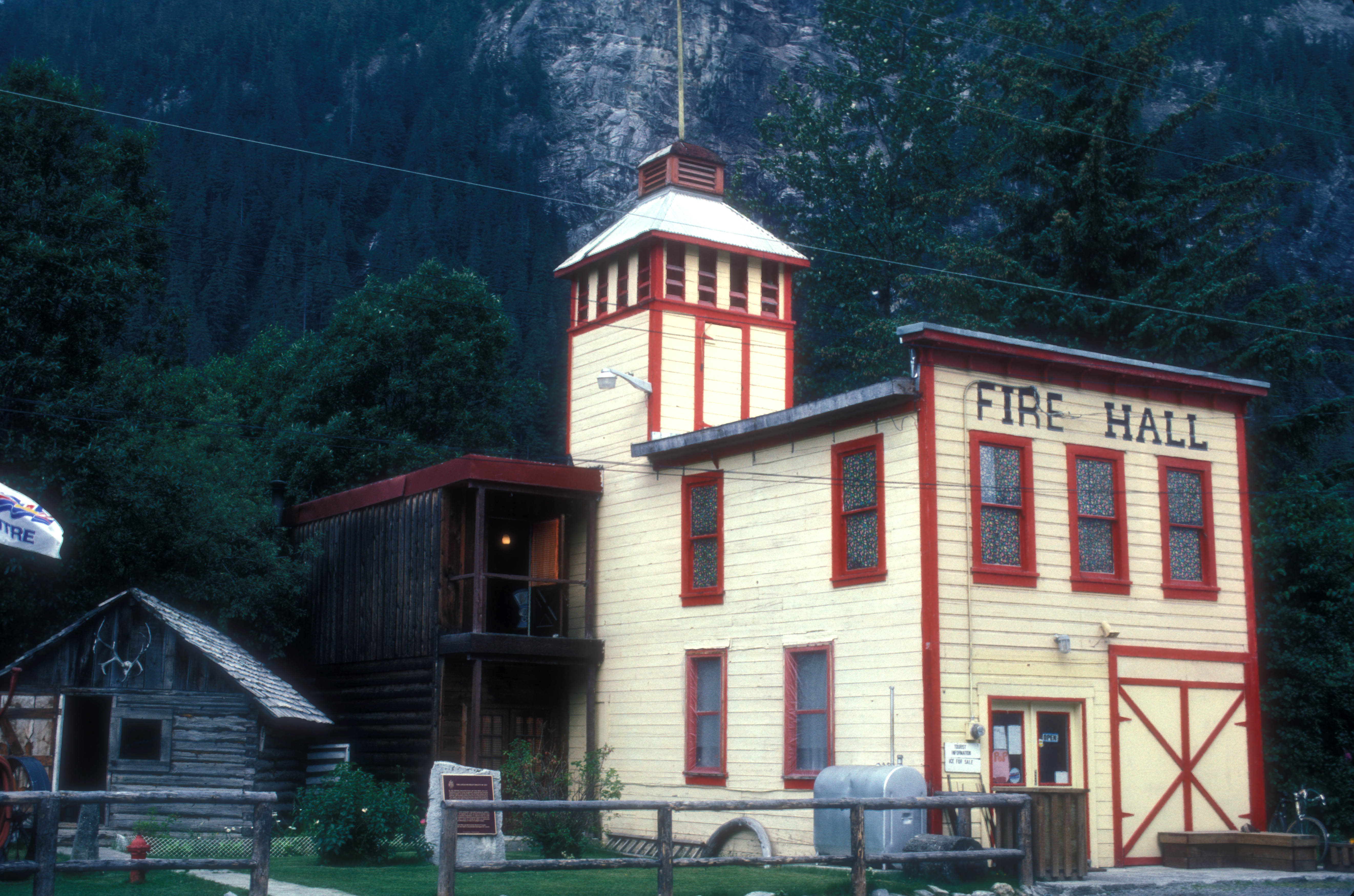 NOW A MUSEUM; STEWART IS A DISTRICT MUNICIPALITY AT THE HEAD OF THE PORTLAND CANAL IN NORTHWESTERN BRITISH COLUMBIA, CANADA.[1] IN 2011, ITS POPULATION WAS ABOUT 494.